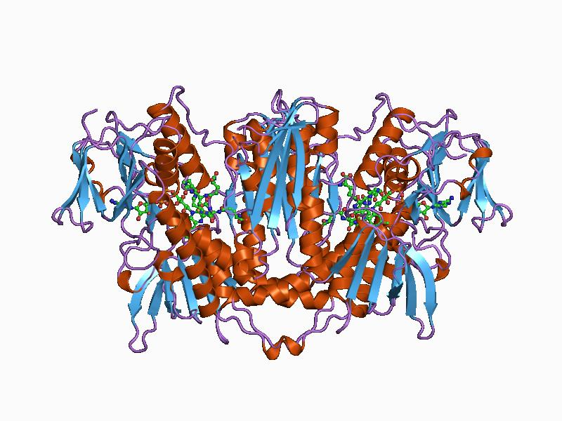 Cartoon representation of the molecular structure of protein registered with 1bzl code.